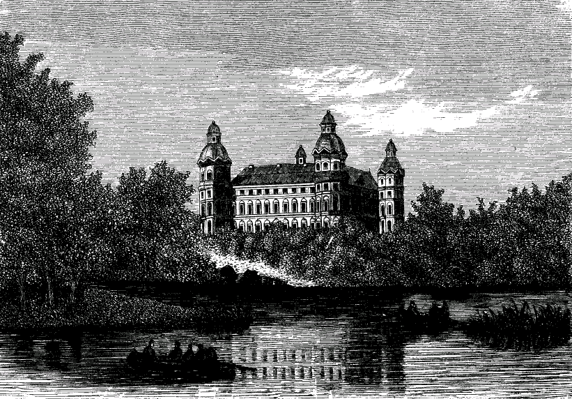 The swedish Castle Skokloster in Uppland.